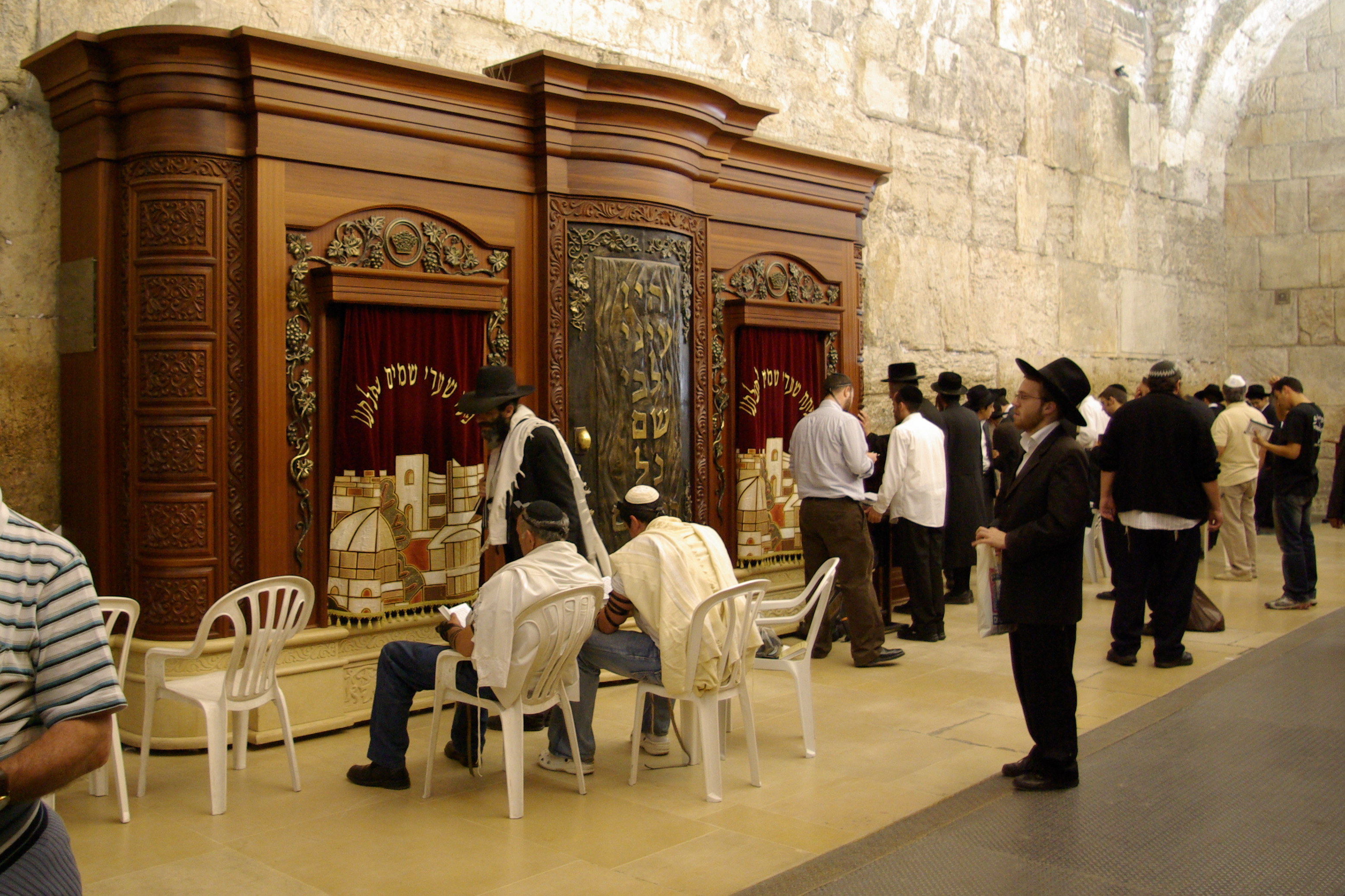 Jerusalem, Western Wall, Synagogue, Torah Ark